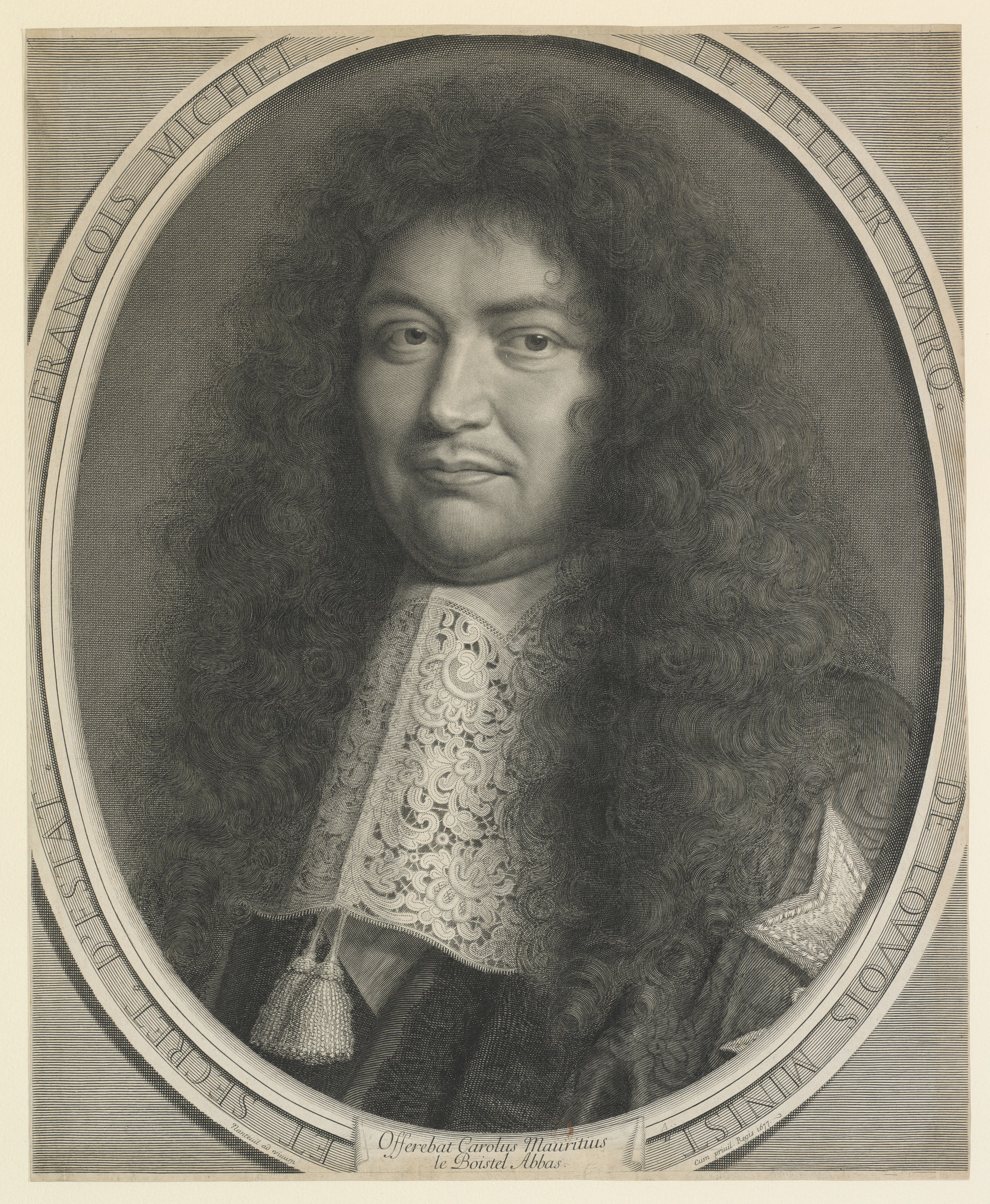 Engaved portrait of François-Michel le Tellier, Marquis de Louvois